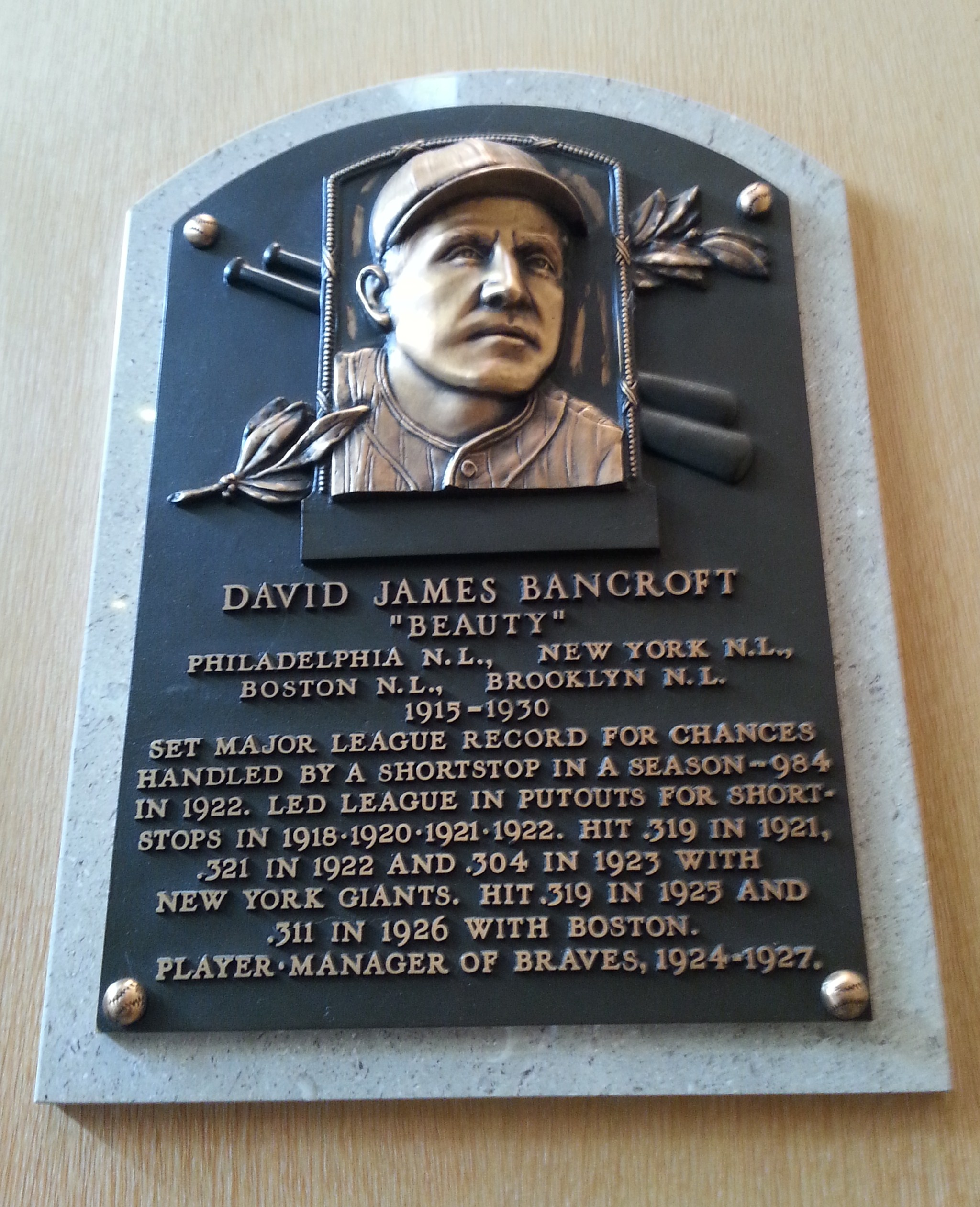 Dave Bancroft plaque in the National Baseball Hall of Fame